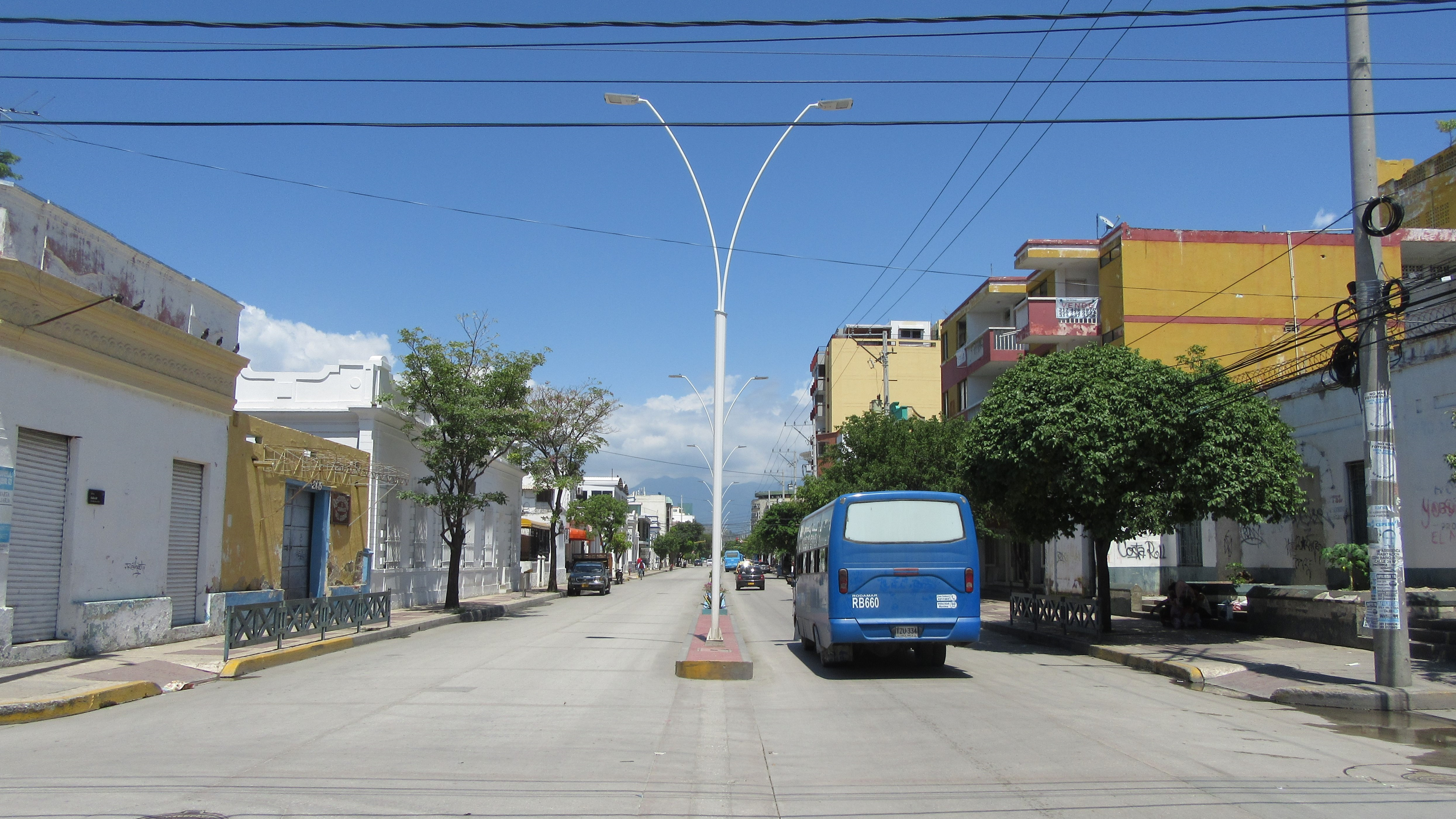 Santa Marta